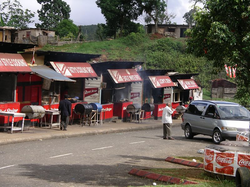 Jerk stands along Highway A1 in central Jamaica.